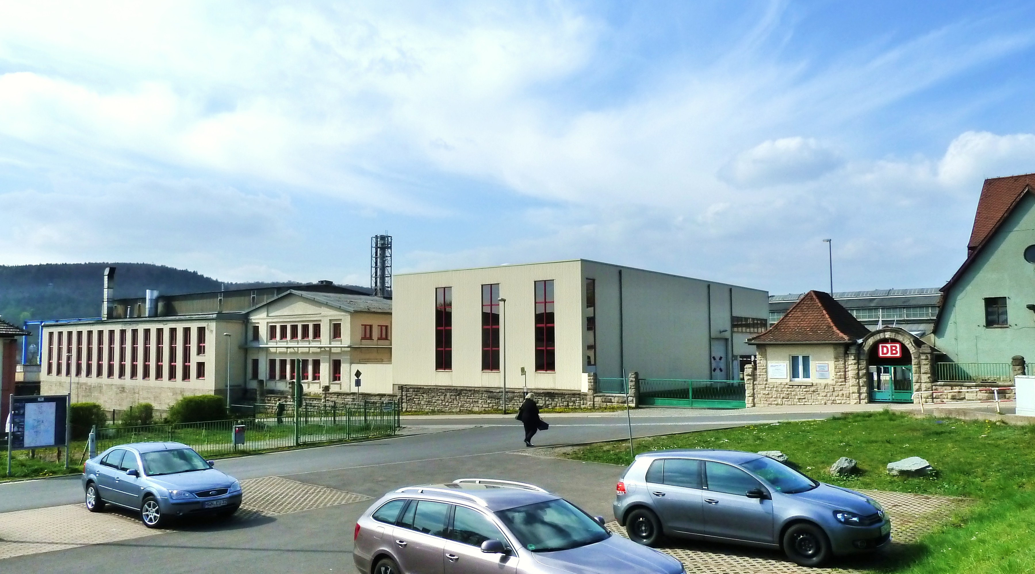 Meiningen Steam Locomotive Works